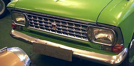 One of the versions of the grille of the Moskvitch-412. Was installed on AZLK Moskvitches (both 408 and 412) after 1969. A rare version. It's my own work based on a free media file from - [1]